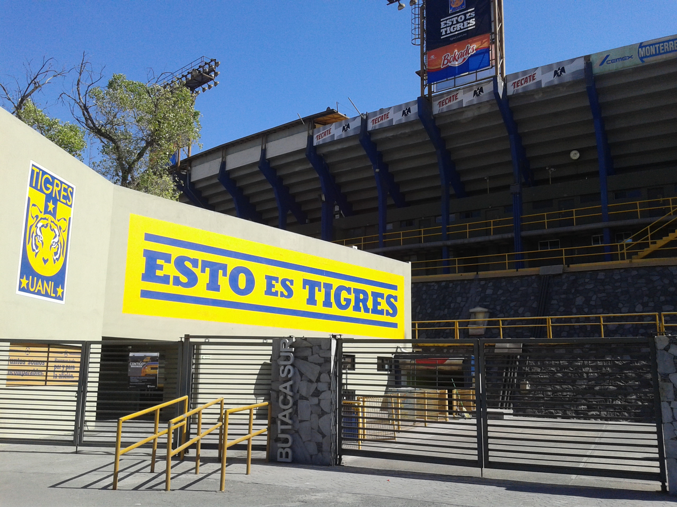 Photography from outside the Universitario Stadium taken by me.